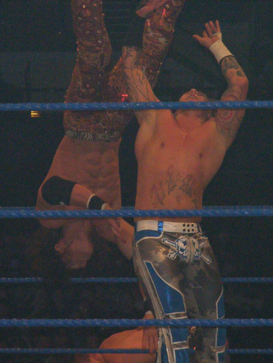 John Morrison & Shannon Moore @ Adelaide, South Australia 'Smackdown/ECW' house show on the 14th of June '08. Shannon Moore is performing a back body drop on Morrison.